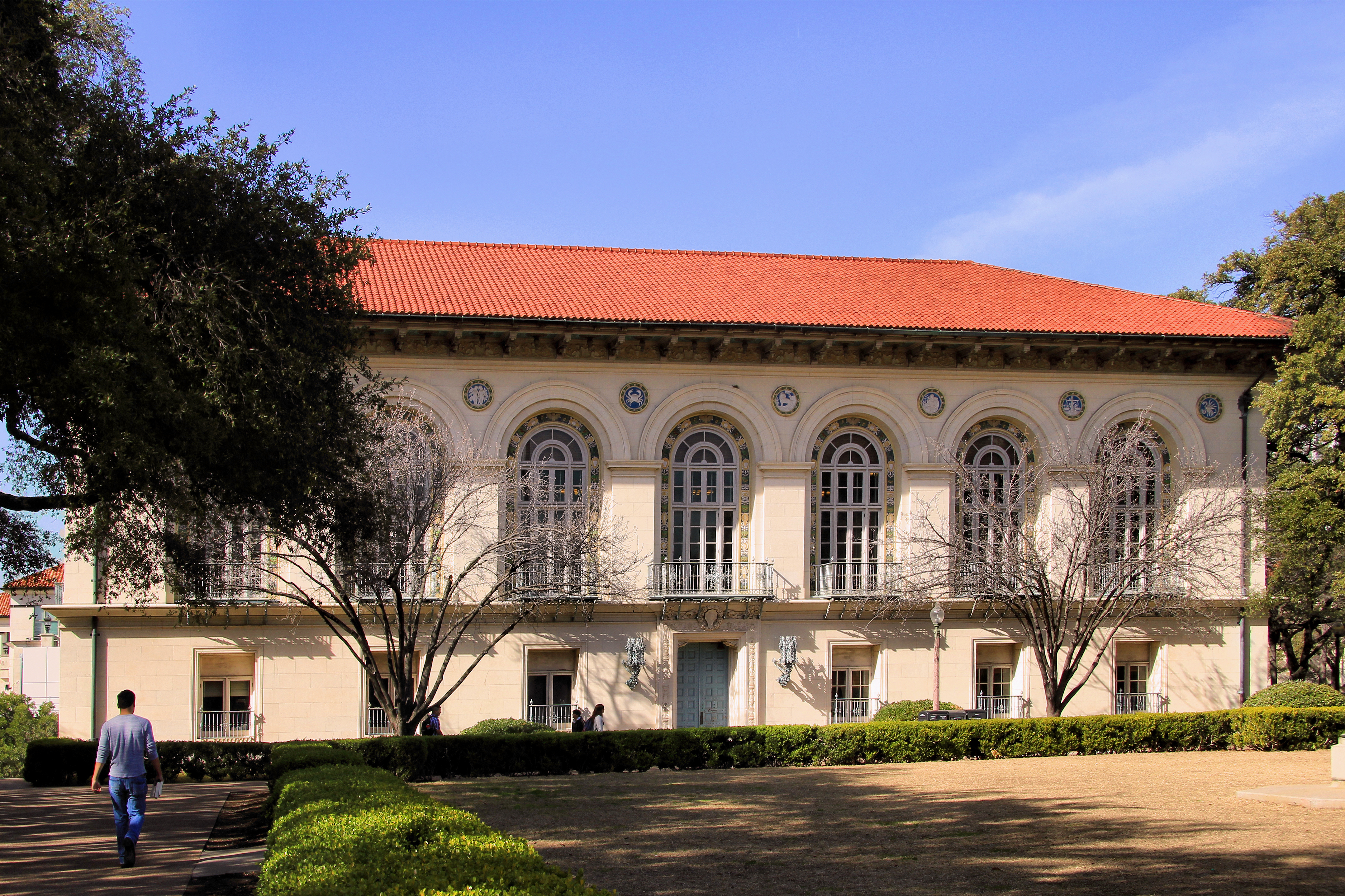 Battle Hall, located on the University of Texas at Austin campus, Austin, Texas, United States. The building was listed on the National Register of Historic Places on August 25, 1970.